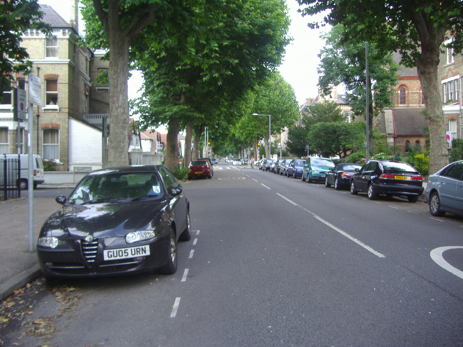 Maple Road and 1 St. Andrews Square, with railings of that square